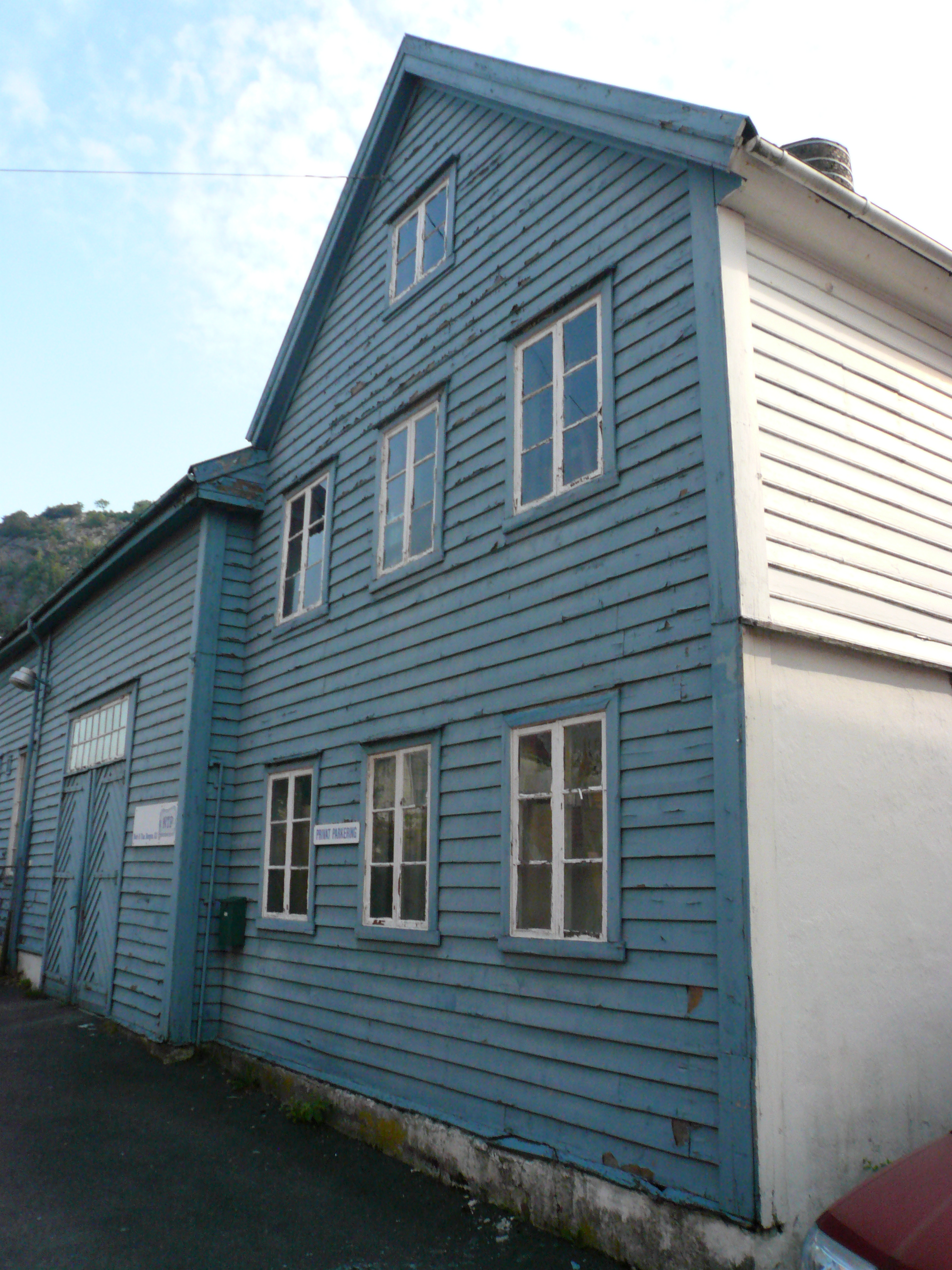 Tjærehuset, Stoltz' reperbane, Sandviken, Bergen, Norway